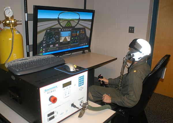 Lt. Cmdr. James McAllister, from San Diego, Calif. sits in the simulator during a test flight using the new Reduced Oxygen Breathing Device (ROBD).